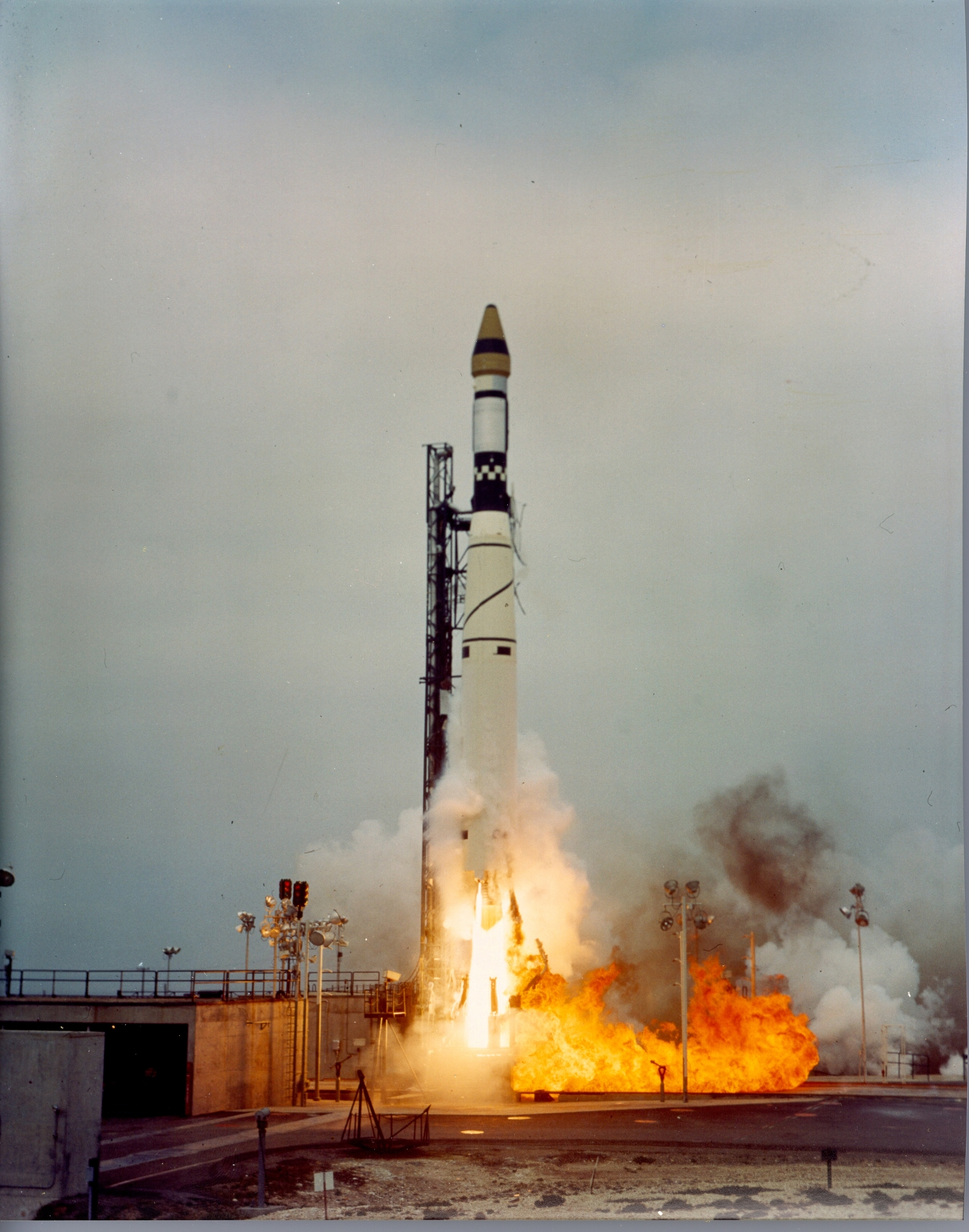 Atlas Agena D launch of NRL Composite 5, an eight-satellite mission, on March 9, 1965